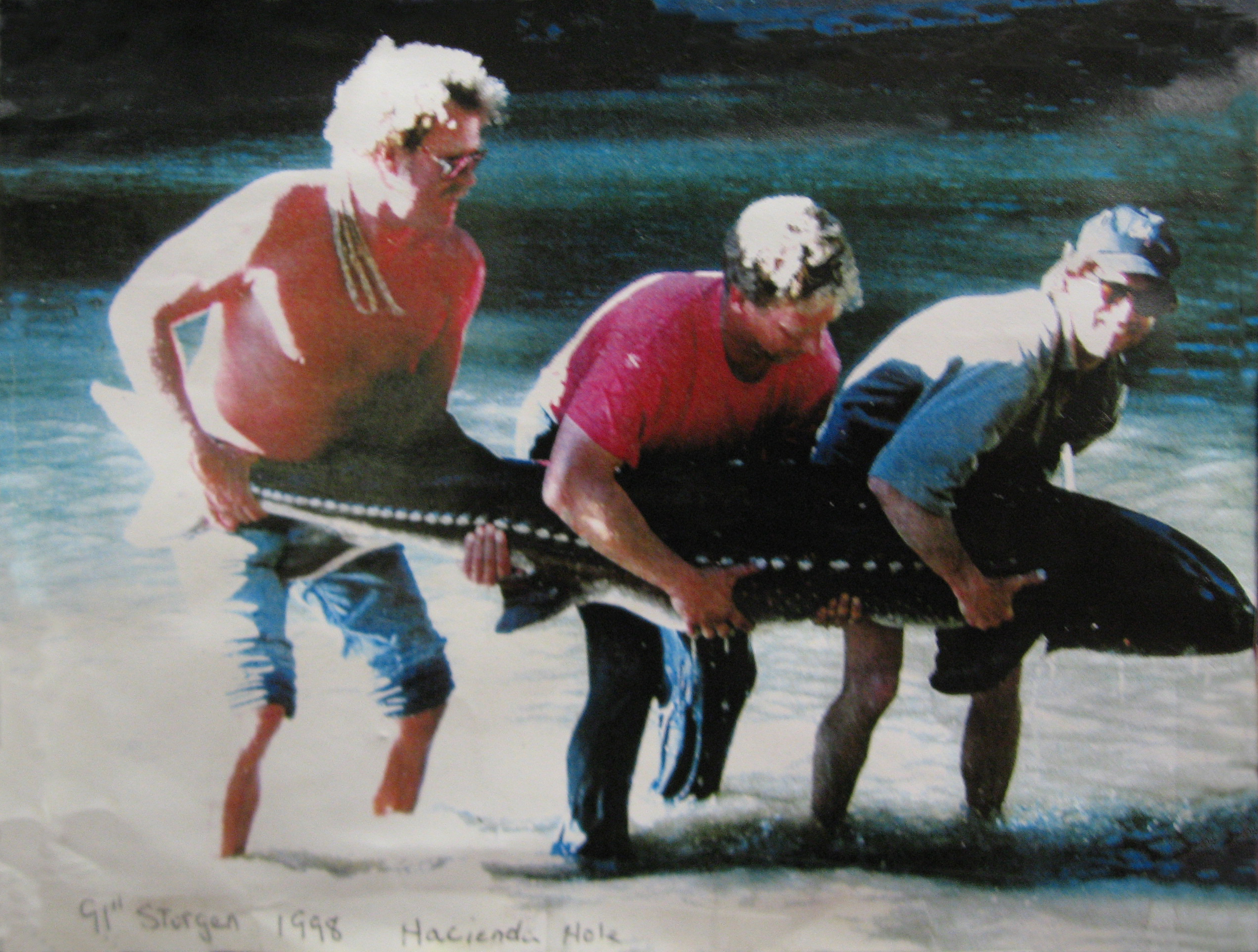 White sturgeon caught in 1998 in Russian River. Poster is in King's Sports in Guerneville, CA.